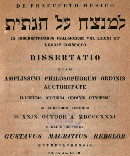 Title page of the dissertation of Gustav Moritz Redslob 1831